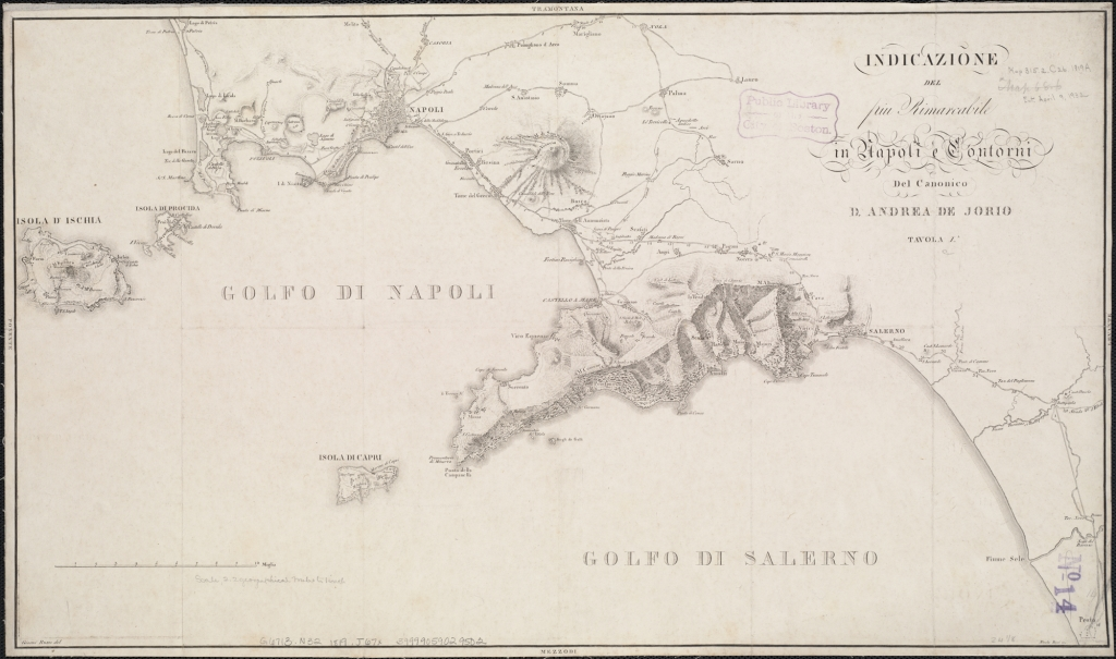 Zoom into this map at . Author: Jorio, Andrea de Publisher: Fratelli Simoni Date: 1819 Location: Naples (Italy), Naples, Bay of (Italy), Salerno, Gulf of (Italy) Dimension: 36x62cm Scale: [ca. 1:163,000] Call Number: G6713.N32 1819 .J67x